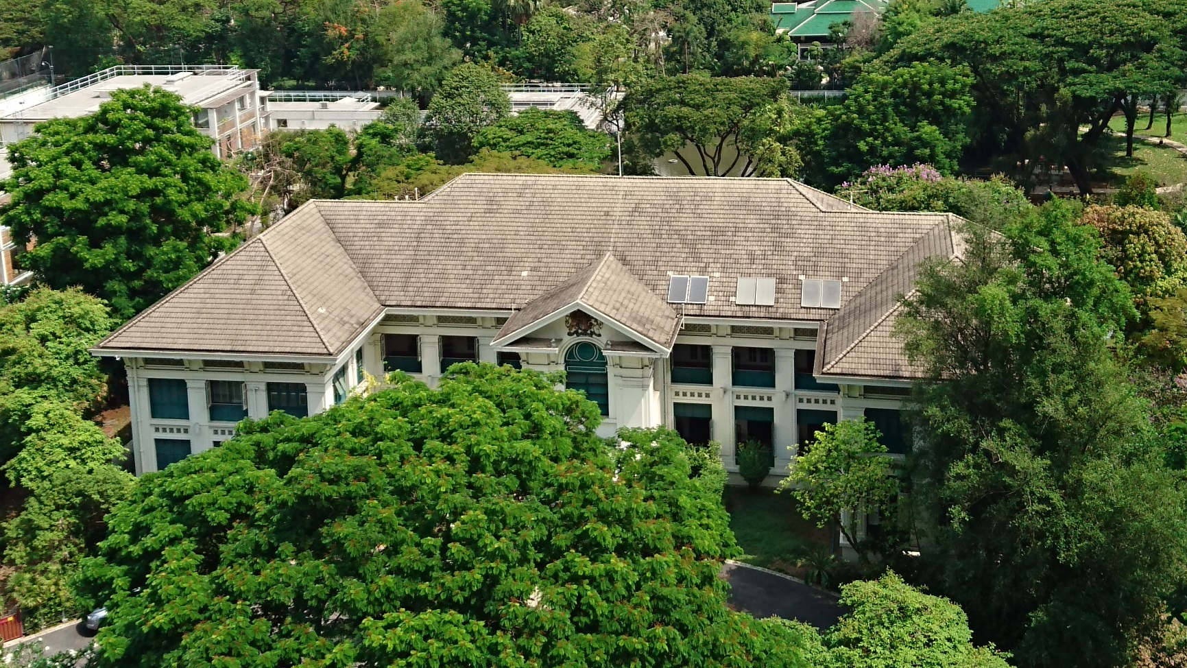 The British Embassy in Bangkok, taken from the Central Embassy shopping centre